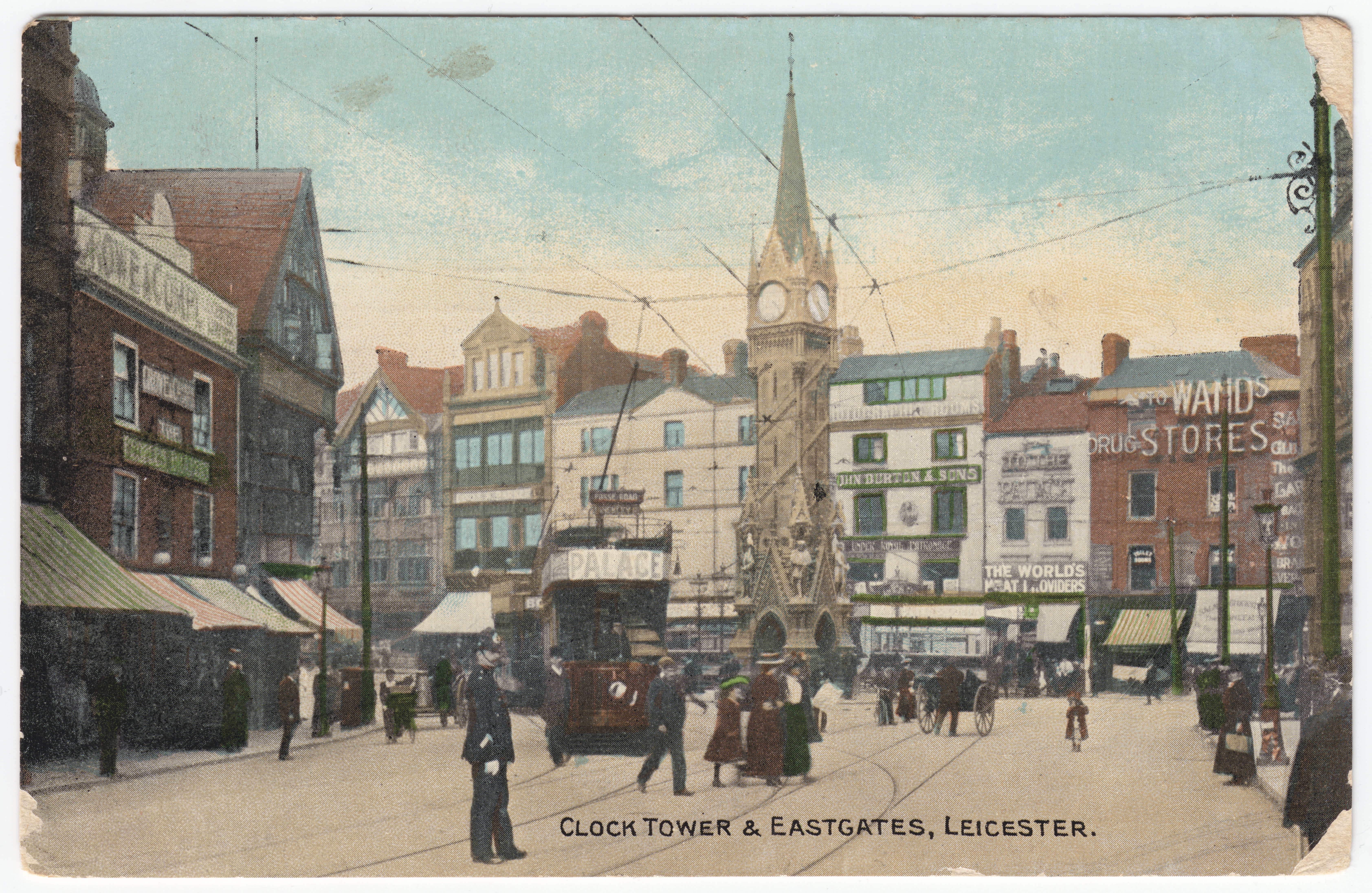 A postcard of central Leicester, showing East Gates and the Haymarket Memorial Clock Tower. Published in (or before) 1910, photographer unknown: therefore in public domain in UK copyright law.